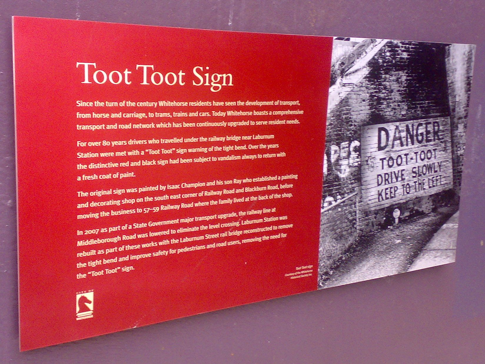 Photo of a plaque commemorating the Laburnum Railway Station 'Toot-Toot' sign